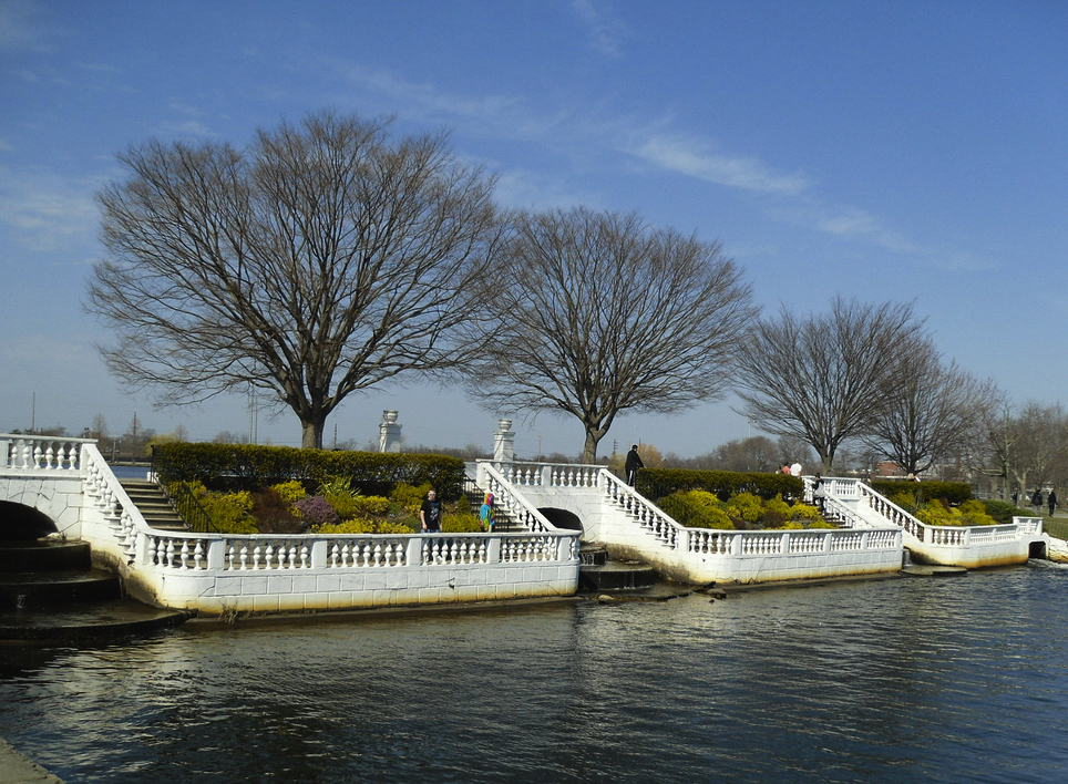 Argyle Lake in Babylon Village